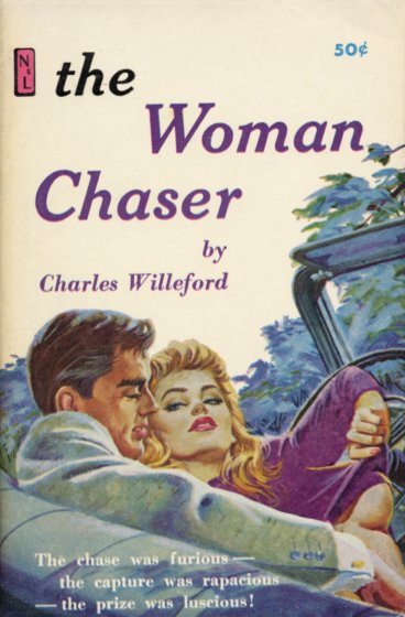 Description: Cover of original edition of Charles Willeford's novel The Woman Chaser (1960) Original rights holder: Newsstand Library Artist: Unidentified Source: Munseys Public domain explanation A search of U.S. copyright renewal records reveals that Newsstand Library (or asignee) renewed no copyright to any content of the published volume. A search of copyright renewal records reveals no evidence that the unidentified creator of the painting that constitutes the primary original substance renewed copyright on the artwork, if any. There is no evidence of any current copyright claim on the cover or the underlying artwork.